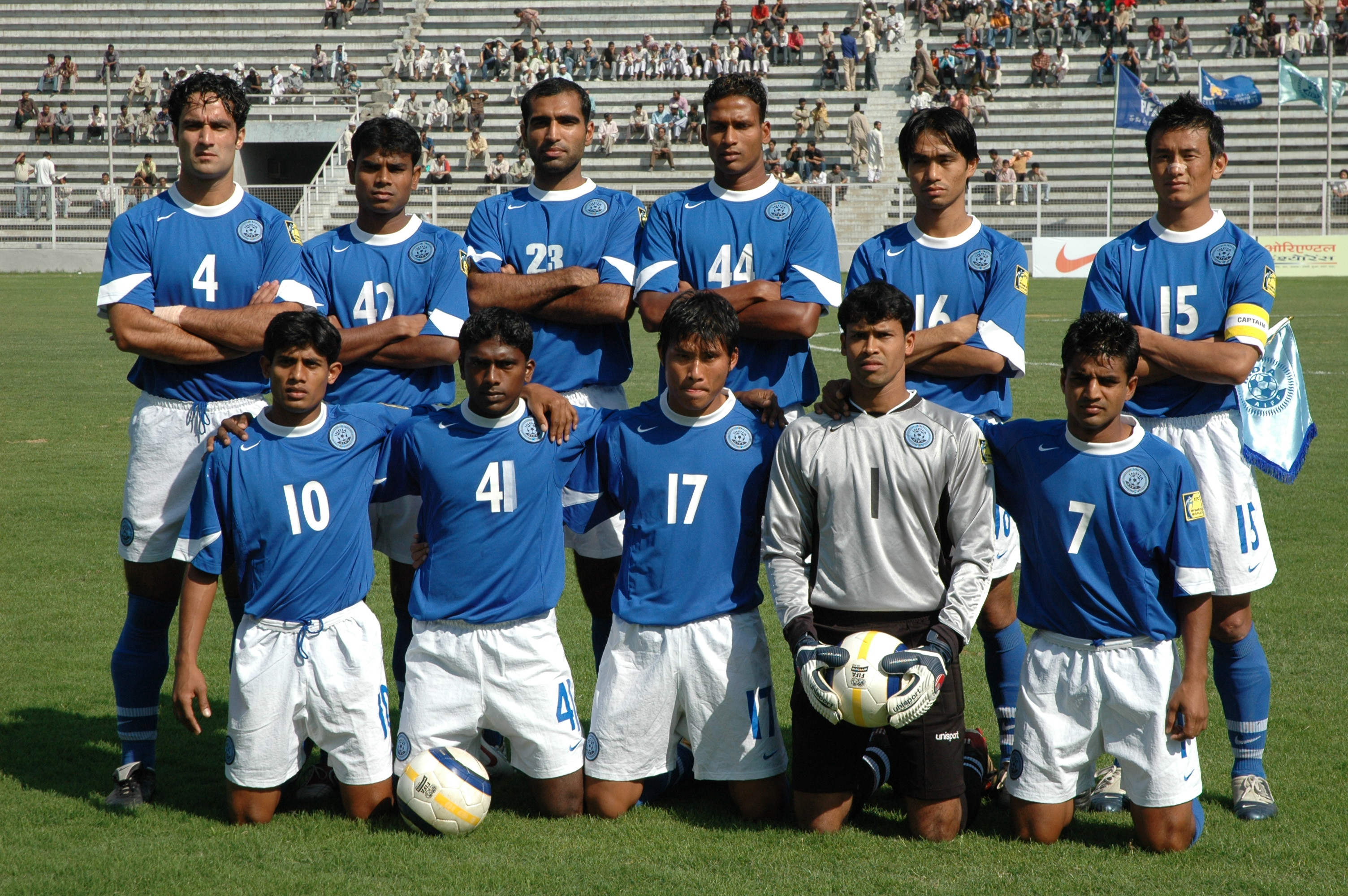 India national football team during the 2007 AFC Asian Cup qualification. 1 Sandip Nandy, 17 Irungbam Surkumar Singh, 42 Deepak Kumar Mondal, 23 Sanjeev Kumar Maria, 41 Pradeep Naduparambil Pappachan, 7 Mehtab Hussain, 4 Mehrajuddin Wadoo, 44 Micky Fernandes, 16 James Lukram Singh, 10 Syed Rahim Nabi, 15 Baichung Bhutia